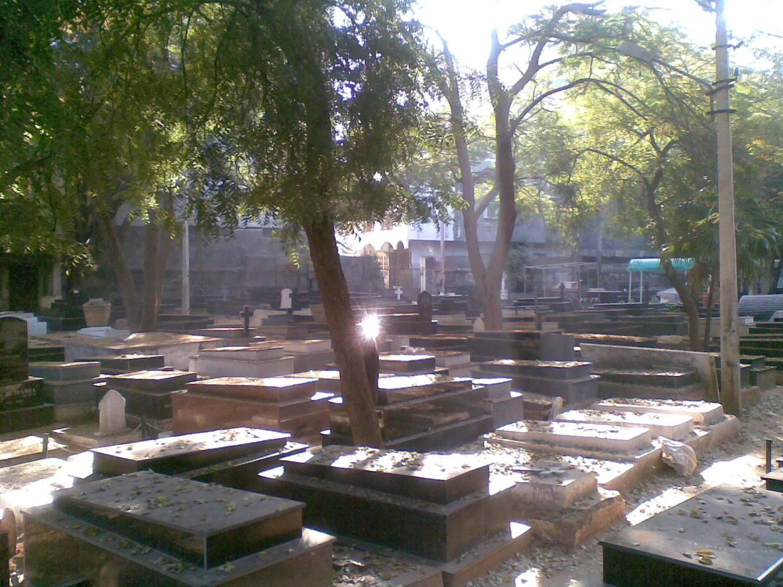 Christian Cemetry, Narayanguda